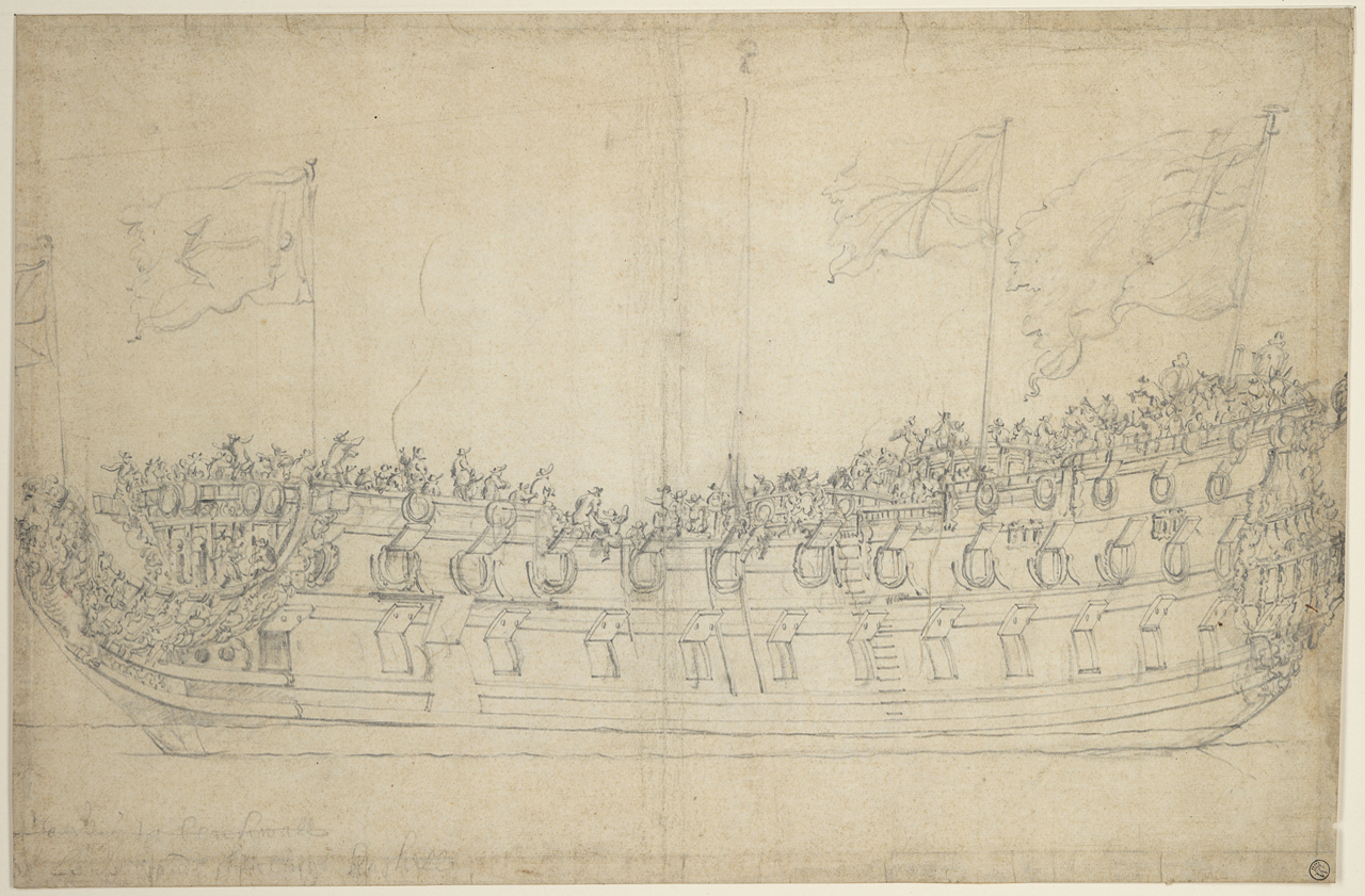 Stirling Castle 1679 [British navy]. A 70-gun third-rate built at Deptford and launched in 1679. It was rebuilt in 1699 and was one of three similar warships of Rear-Admiral Basil Beaumont’s squadron lost on the Goodwin Sands in the Great Storm of 1703. (The NMM also holds items recovered from modern investigation of the wreck.) Carefully and accurately executed, probably from an offset, this drawing shows the ship from before the port beam immediately after her launching. The staff amidships, where the royal standard flew at the launching, is bare; but there is a jack on the stem, an Admiralty flag forward, a Union flag aft, and an ensign. On the broadside the ship carries thirteen guns on the gun deck, thirteen on the upper deck, two each on the forecastle and poop and five on the quarterdeck. It has wreathed ports and a crowned lion figurehead. Originally inscribed ‘Jacobus te blackwall’ (?), this is crossed out, with ‘de Lense vande sterlings kastell’ written beneath (The launch of the ‘Stirling Castle’). In 1958 Robinson noted a starboard broadside view of the same ship in the collection of D.G. van Beuningen.